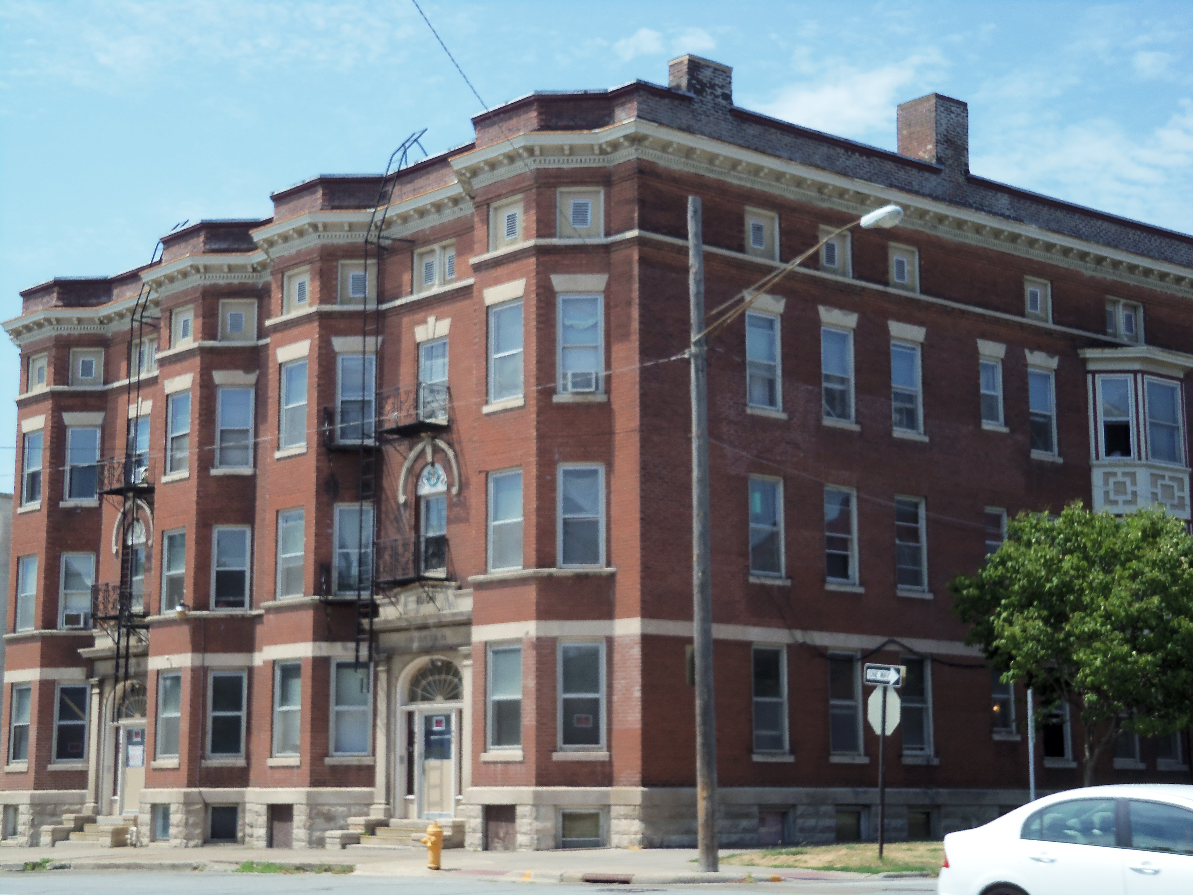 Andresan Apartments in Davenport, Iowa are a contributing property in the West Third Street Historic District